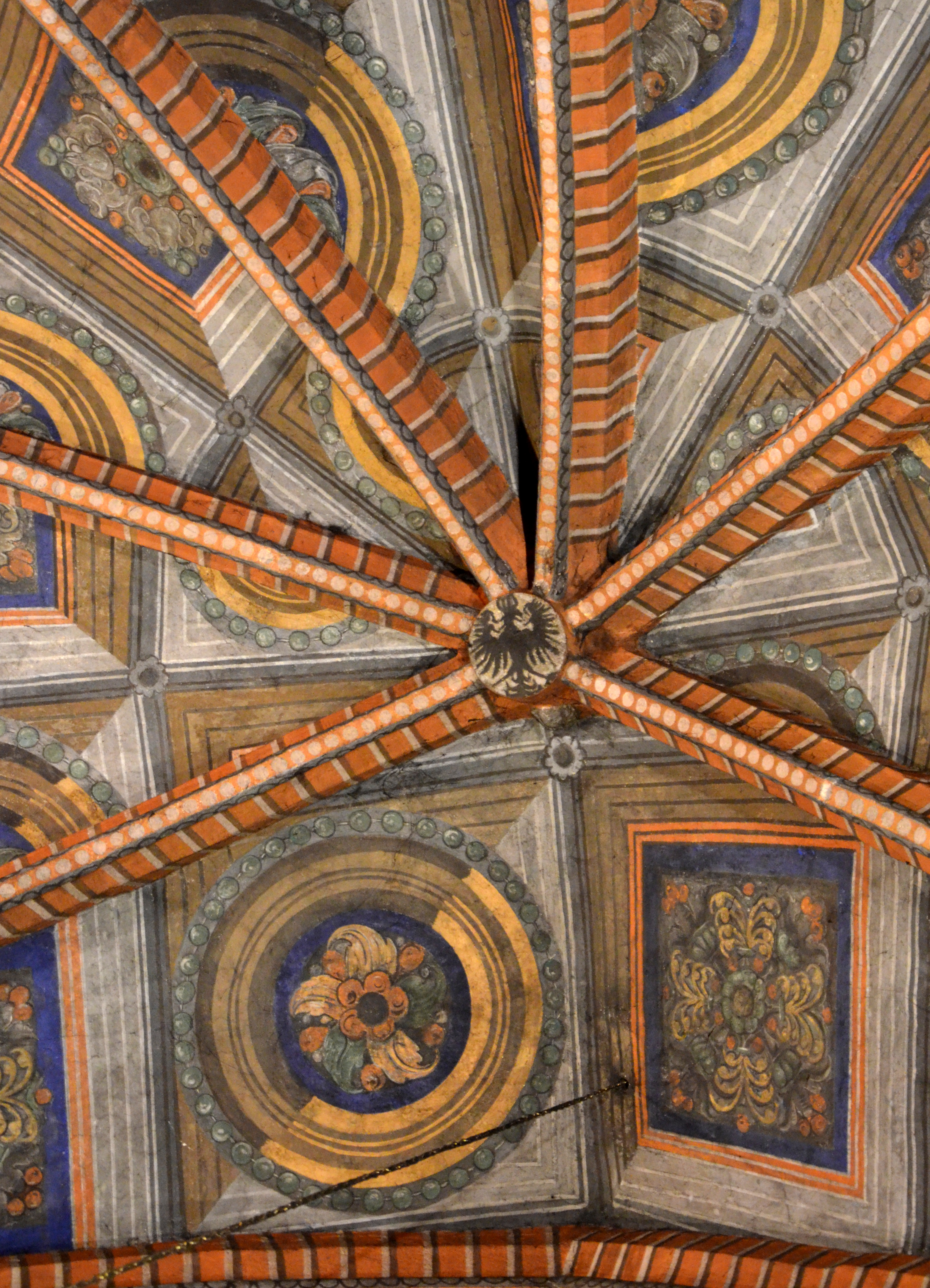 Interior of the St. Stanislaus church in Bielsko-Biała